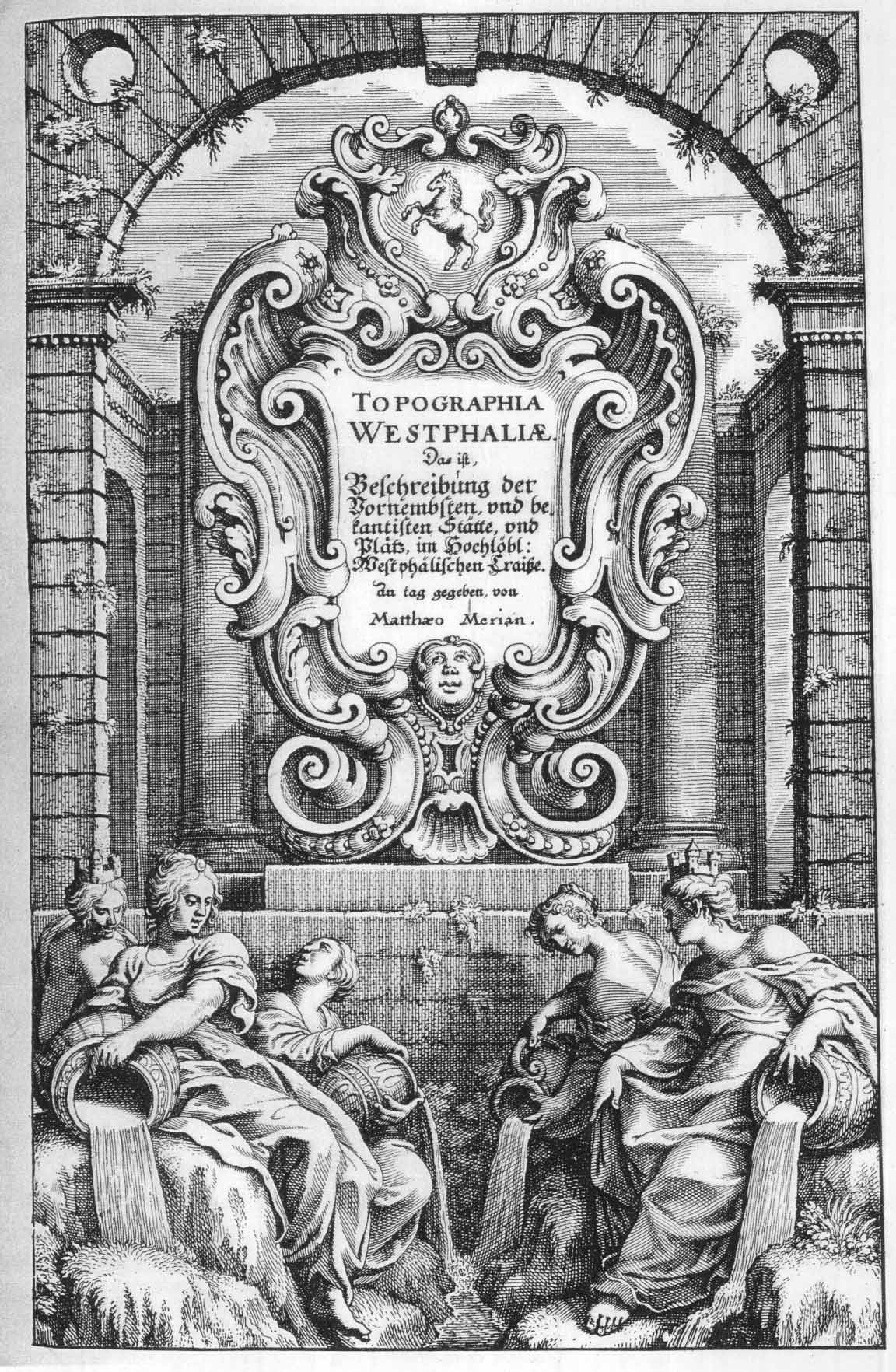 This is a scan of the historical document